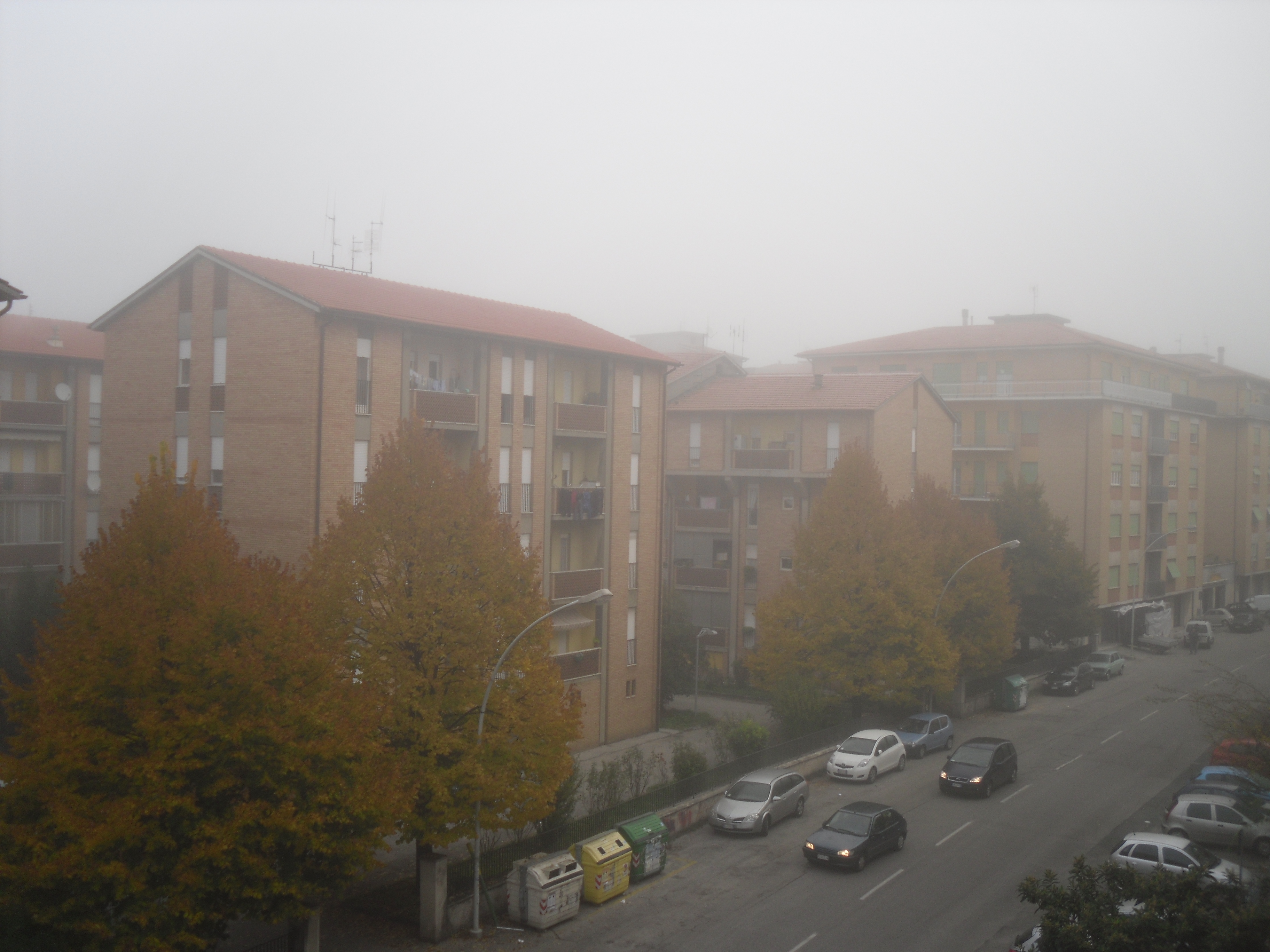 Fog in Paolessi road, Rieti, 8.05 AM